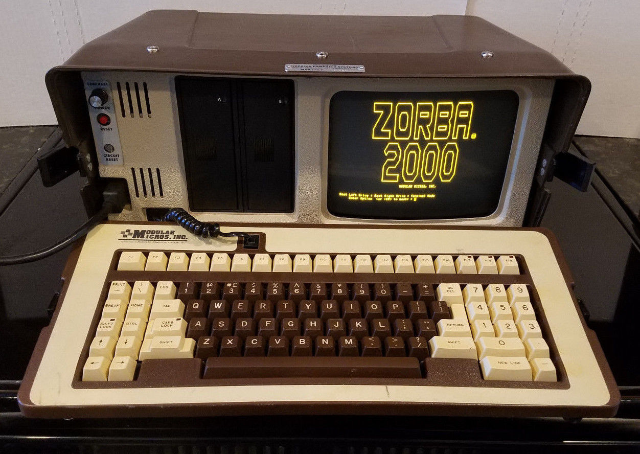 A photograph of an 8-bit Zorba 2000 model "luggable" computer demo unit produced by Modular Micros, Inc. in the early 1980s